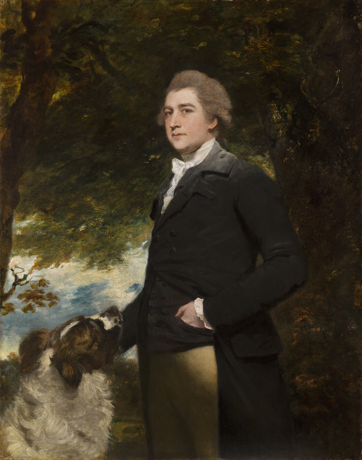 18th Century Painting of British Politician Sir John Honywood